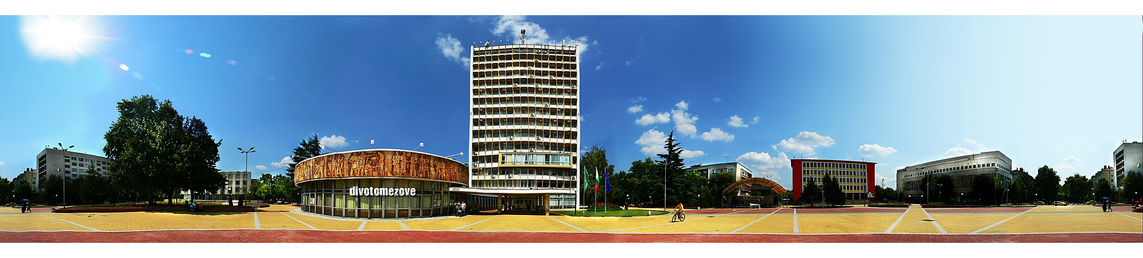 Panorama view of downtown Bulgaria square in Dimitrovgrad, Bulgaria